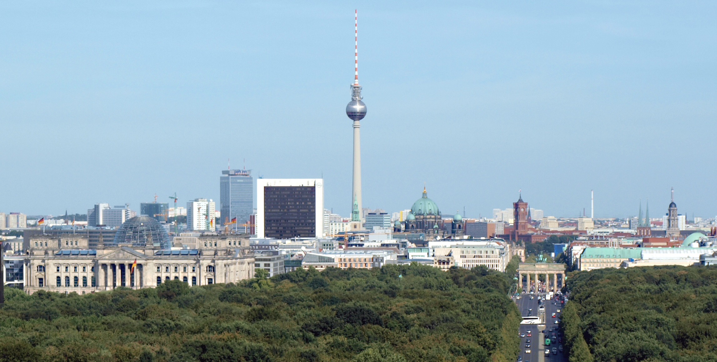 Berlin Cityscape, Shot from Siegessäule